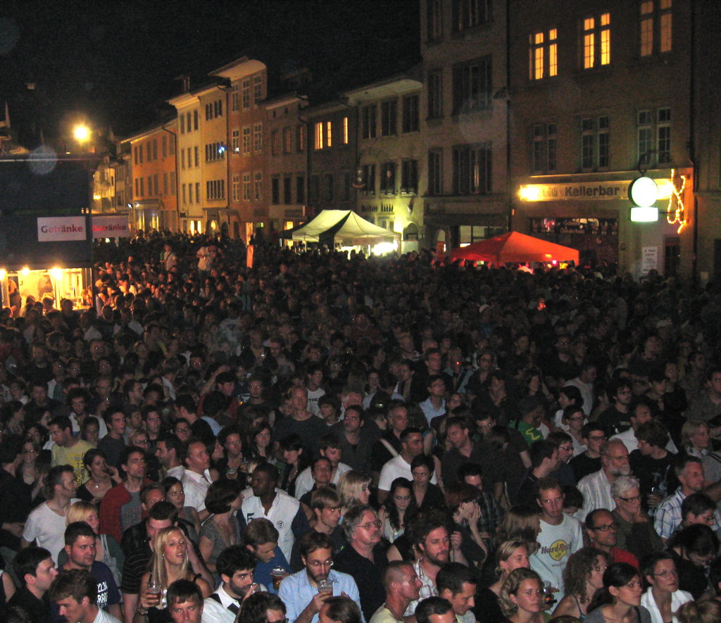 The Winterthur music festival takes place in the city centre.